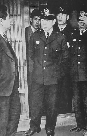 Eiichi Tanaka